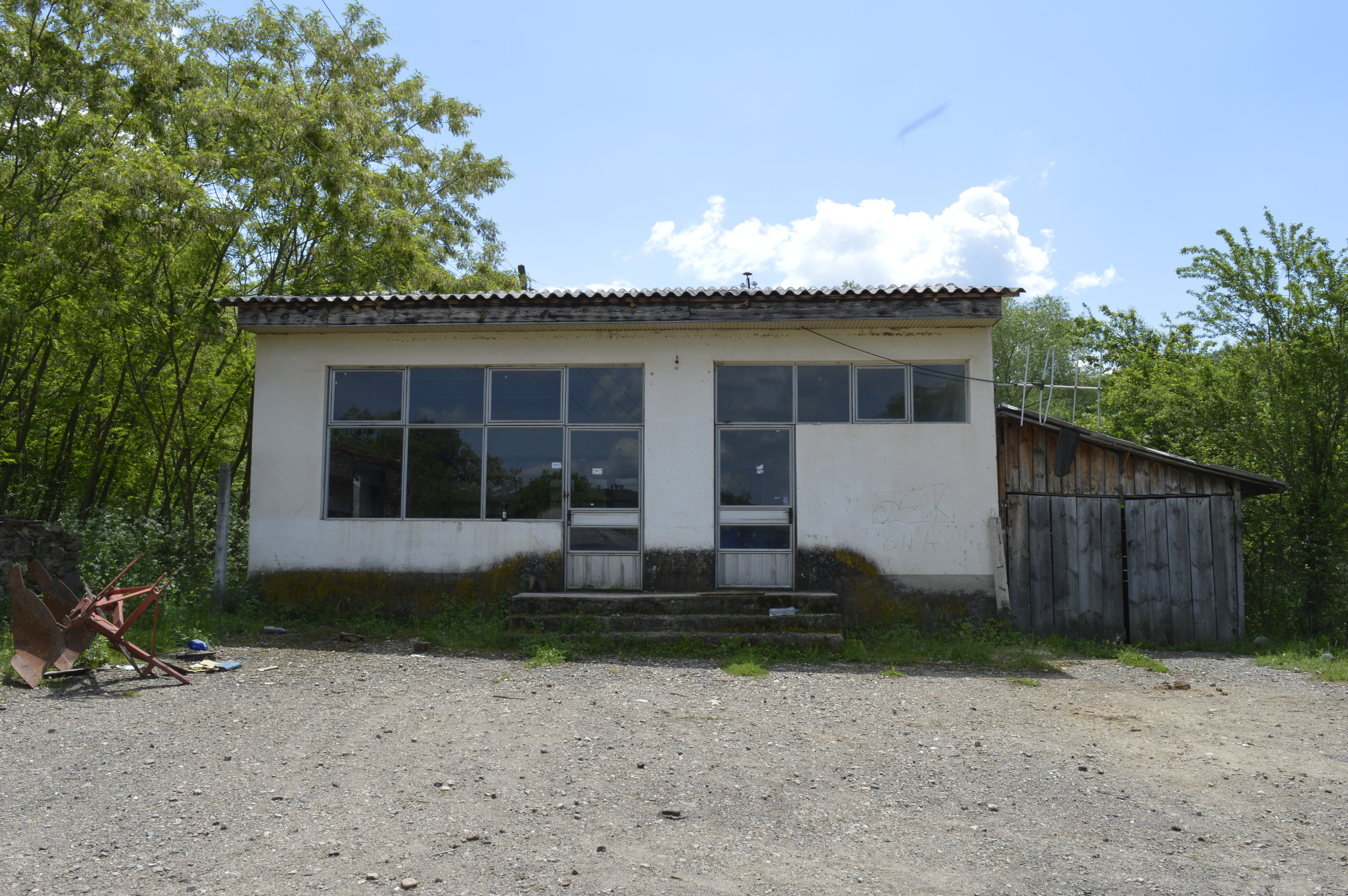 Building in the village Nov Istevnik